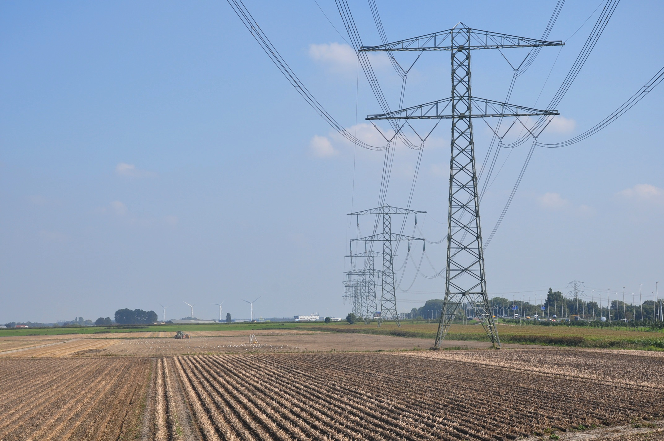 The 'Klap Polder' lies between Zoetermeer, Moerkapelle en Bleiswijk (Municipality Lansingerland, Province South Holland, Netherlands).